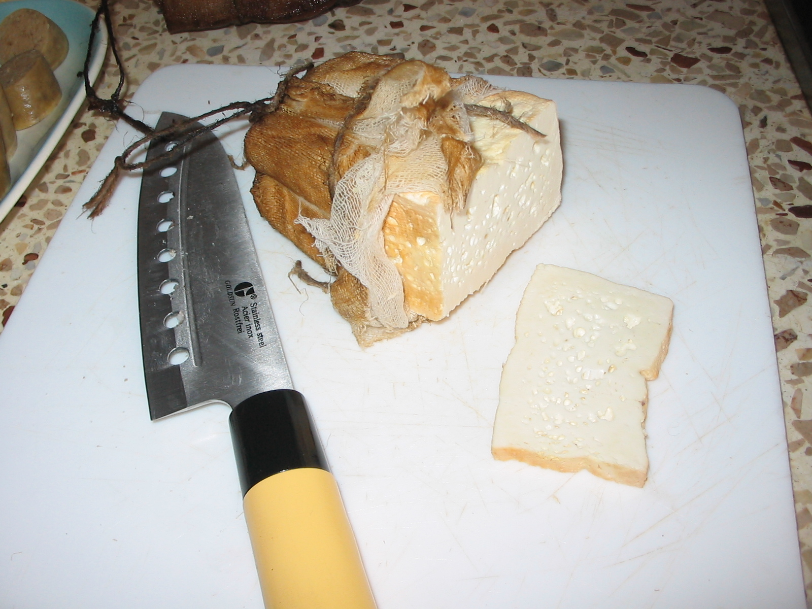 Smoked bryndza